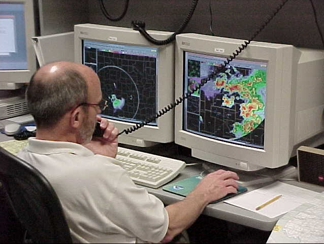 Meteorologist at work at the Storm Prediction Centre de Norman, Oklahoma, circa 2006